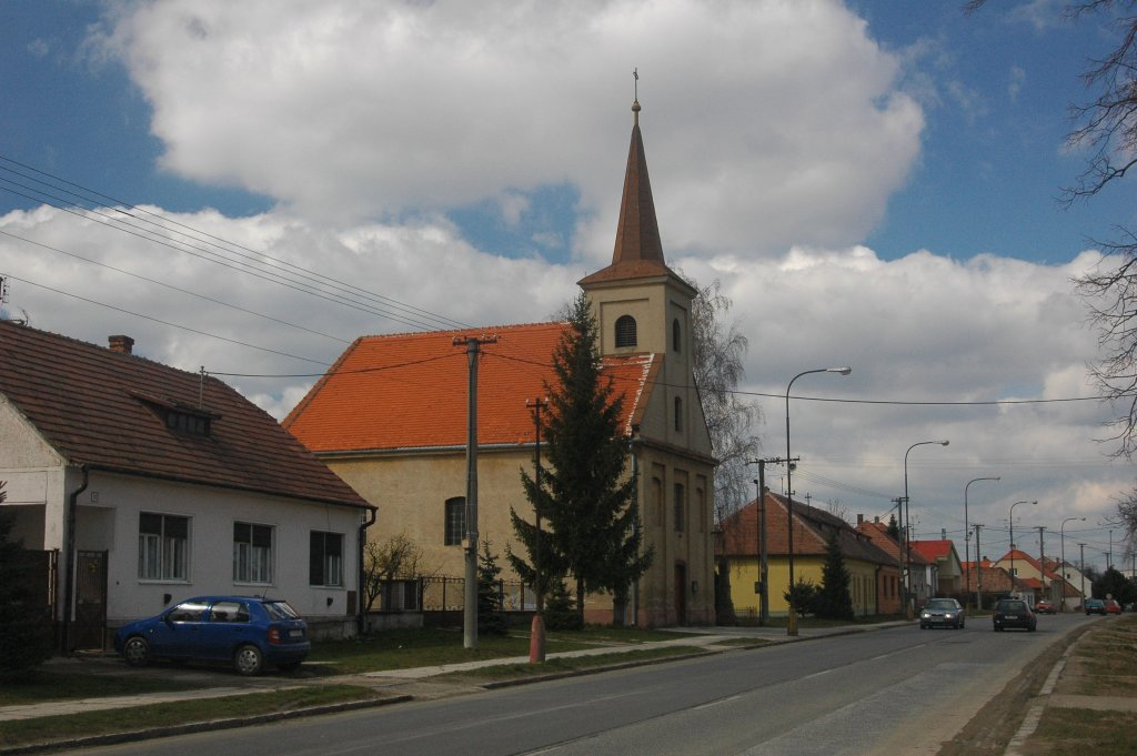 Boleráz-Klčovany, St. Mary church (1856)